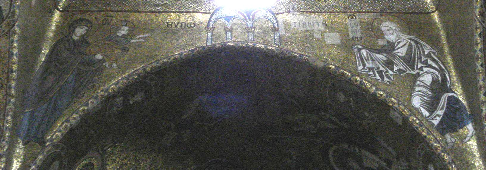 Presentation to the Temple - mosaic (Martorana, Palermo)